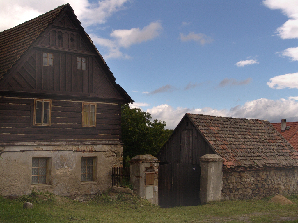 Old wooden house (no. 13) in Staňkovice, Litoměřice District, Czech Republic (photographed in 2005).